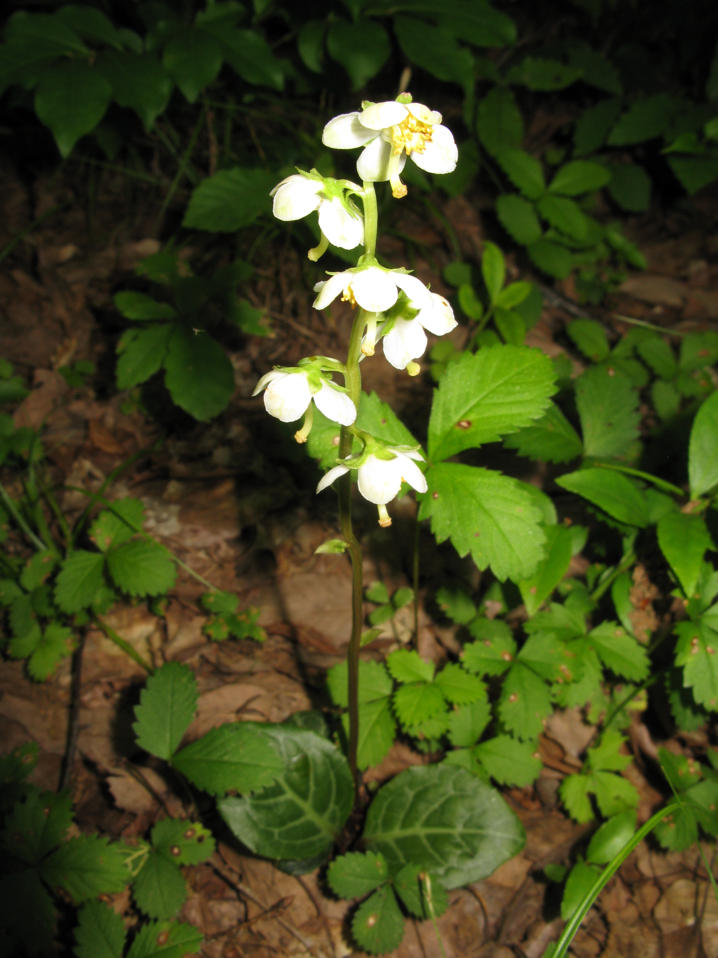 Pyrola japonica, Aizu area, Fukushima pref., Japan